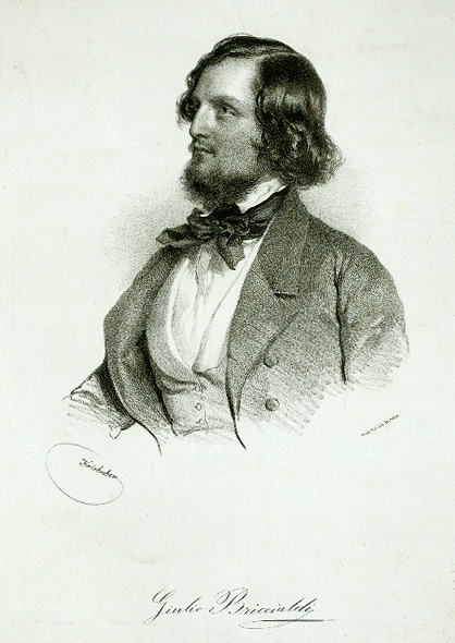 Italian flutist Giulio Briccialdi (1818—1881)